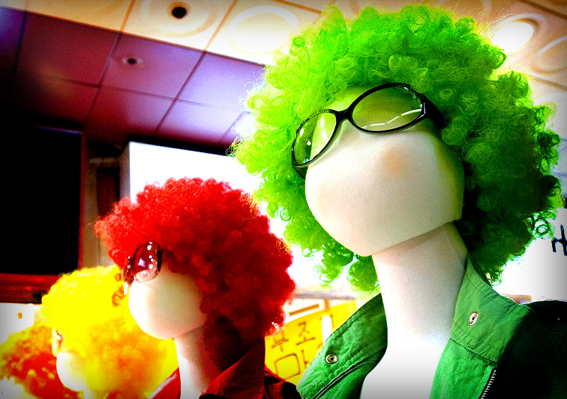 Pimpshop® mannequins with colourful wigsPimpshop® mannequins